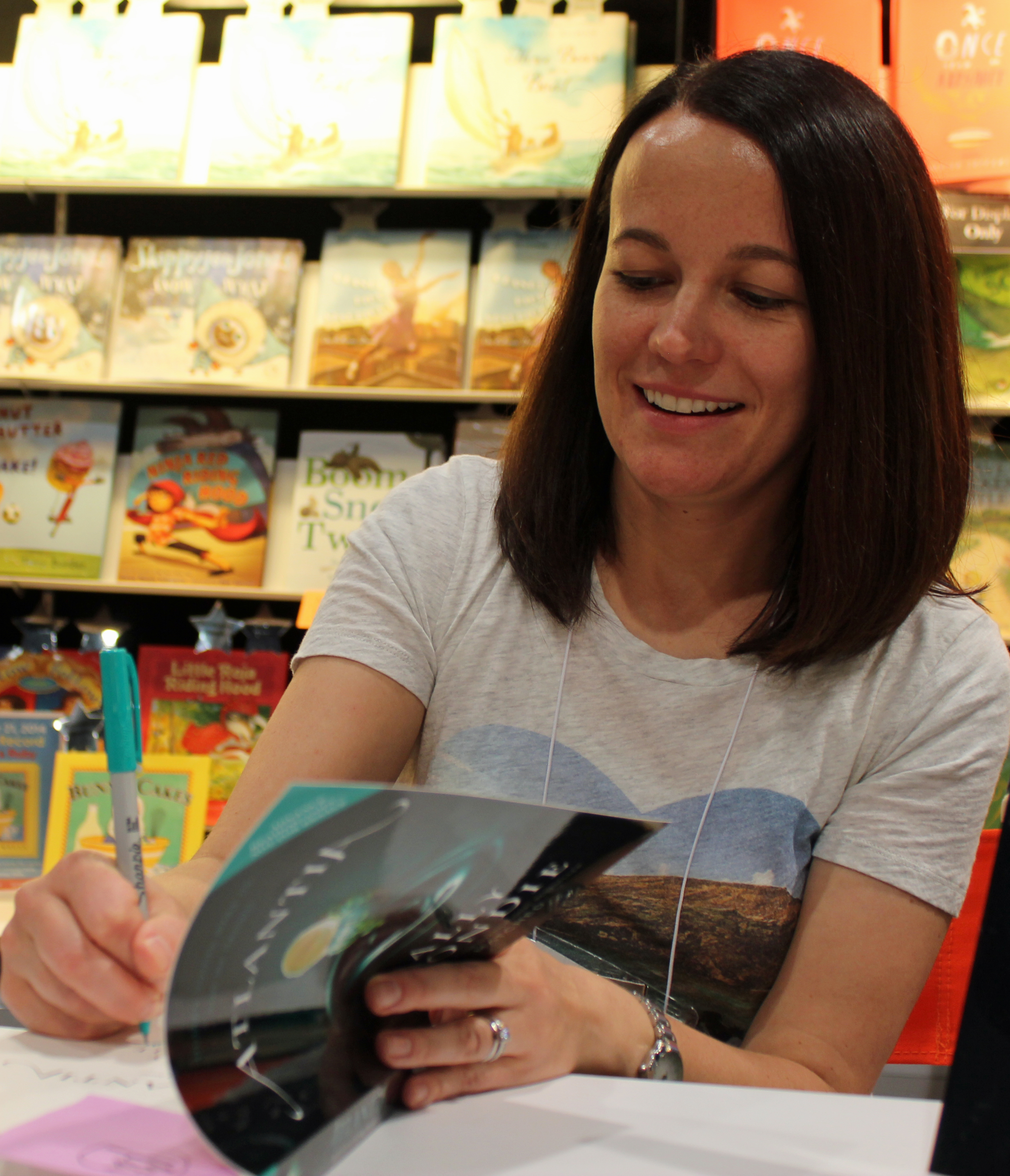 Ally Condie, an American novelist.